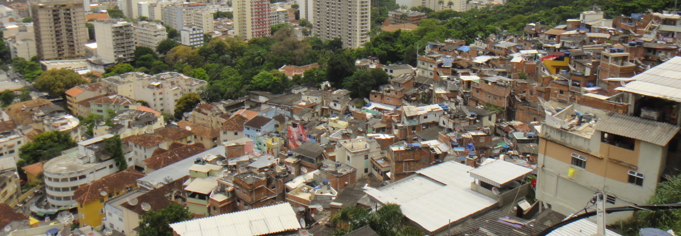 Santa Marta slum, in Dona Marta hill, in Rio de Janeiro south zone, Botafogo